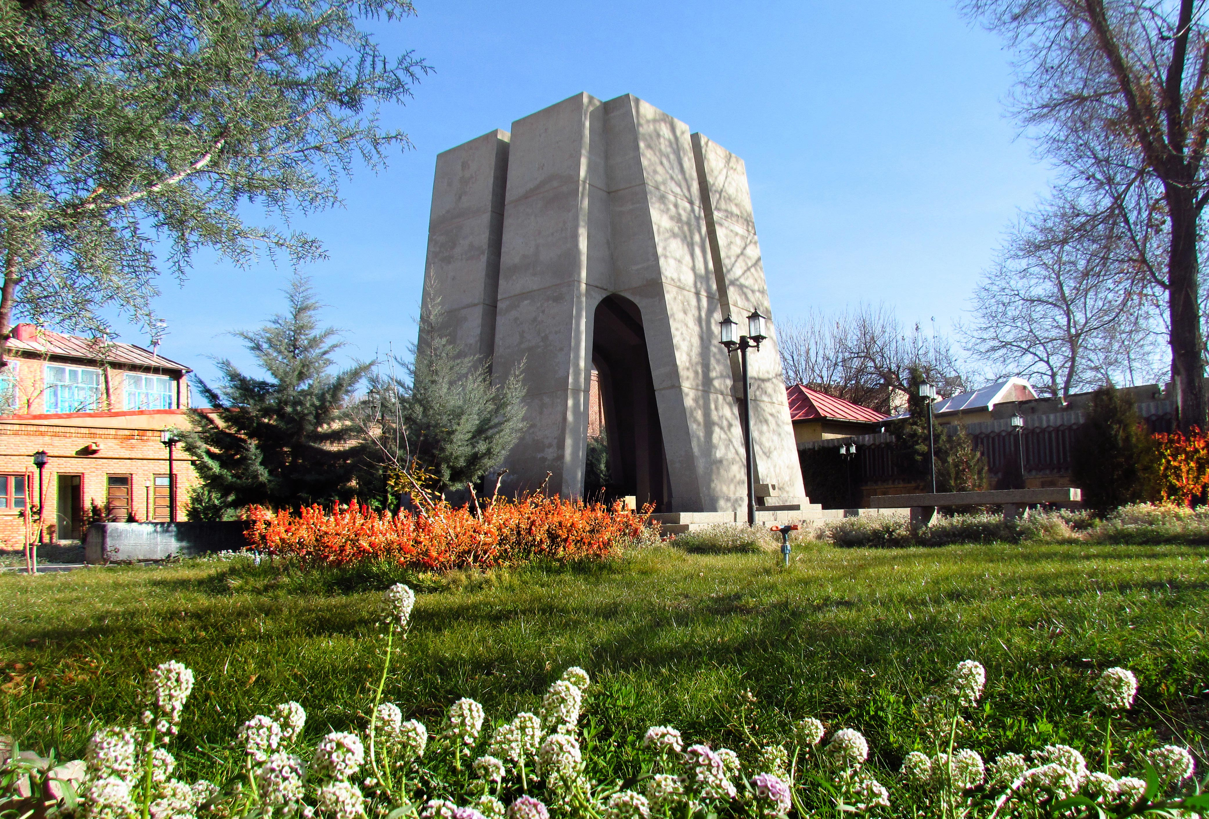 Tomb of Awhaduddin Awhadi Maragheie in Maragheh city.